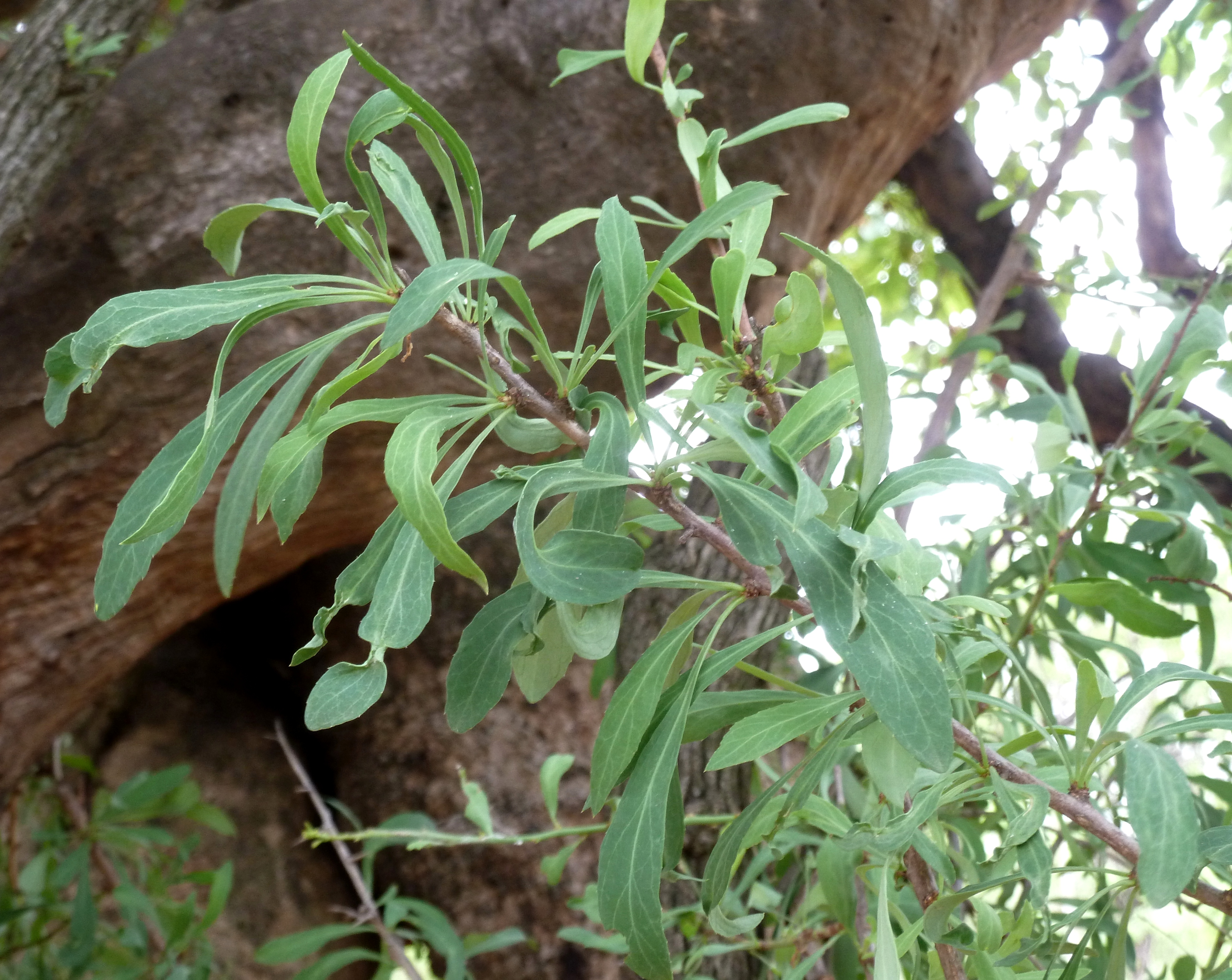 Foliage of a Spike-thorn at Zoutpan near Pretoria